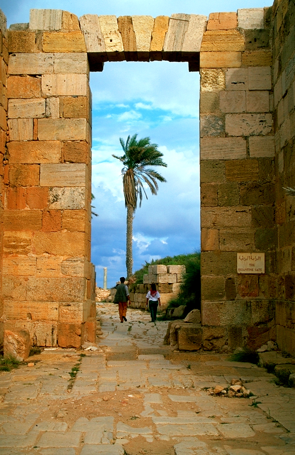 The Bizantine Gate - Leptis Magna Libya